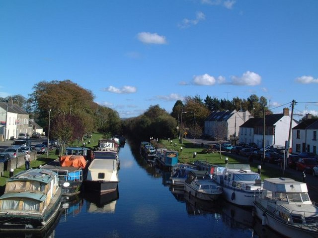 Sallins Marina